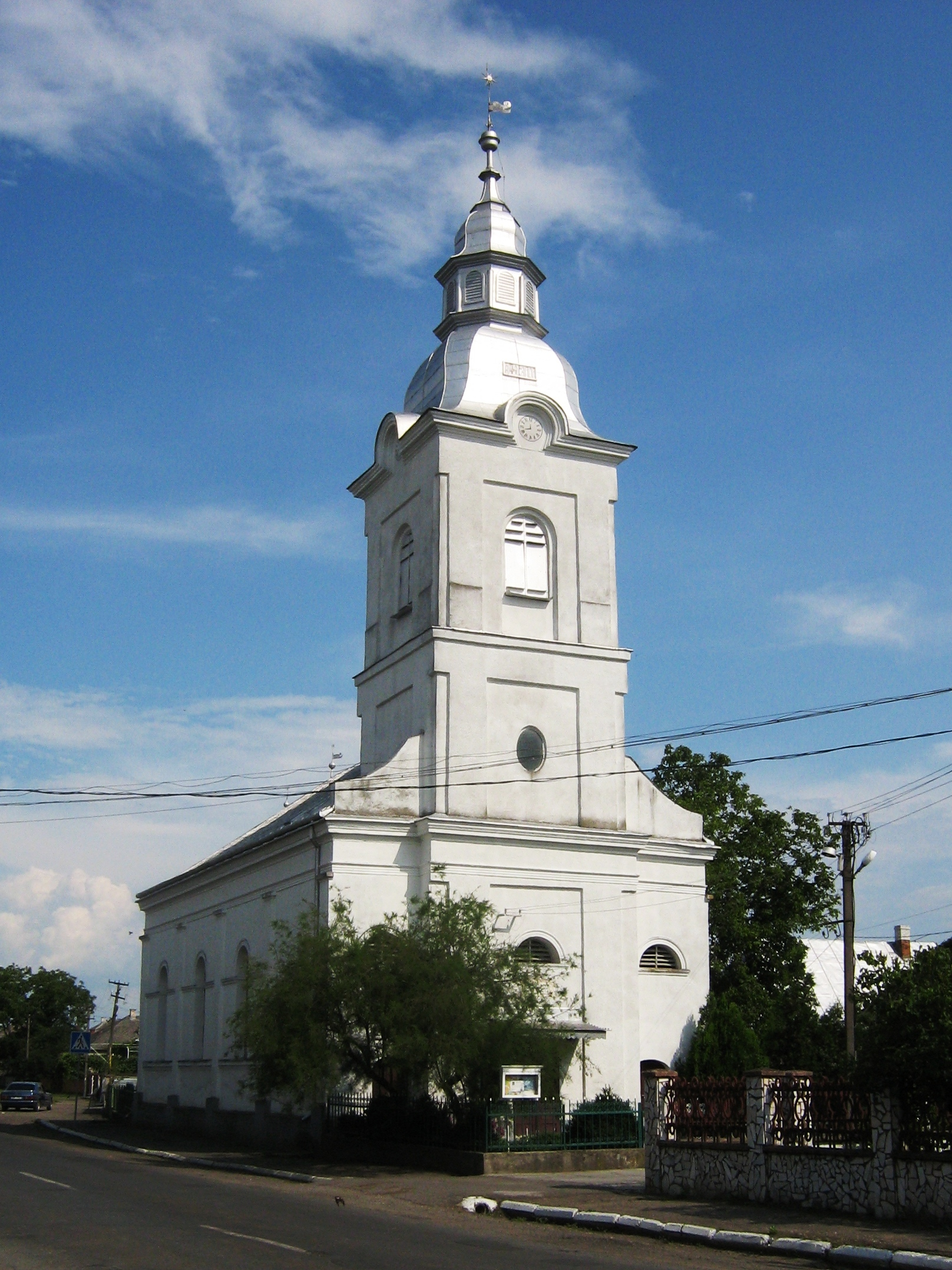 Reformed church in Peterfalva, Vynohradiv Raion, Zakarpattia Oblast